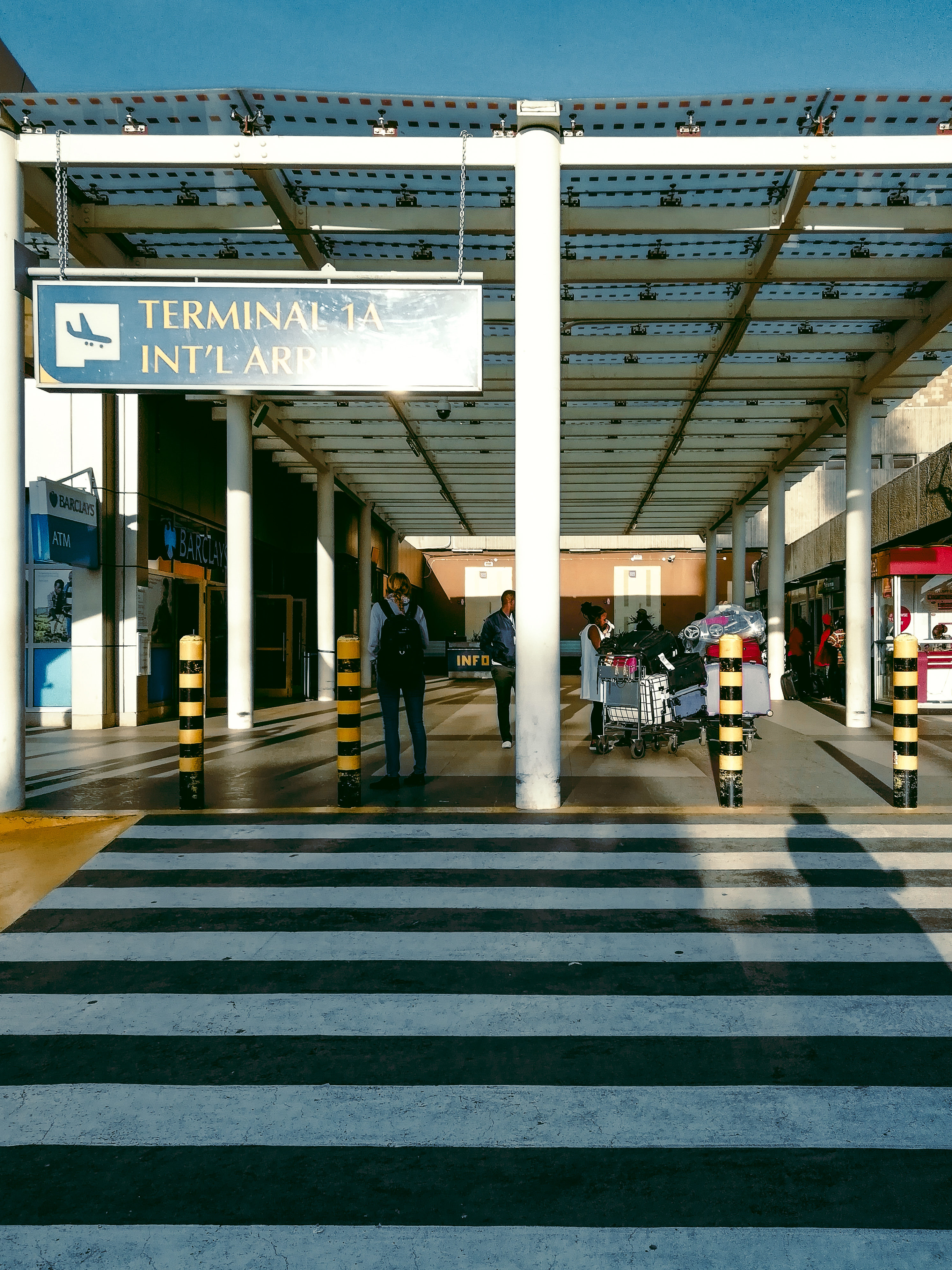 Jomo Kenyatta International Airport is Kenya's largest and busiest airport. Captured here is one of its terminals during a sunrise. This is an image with the theme "Africa on the Move or Transport" from: Kenya